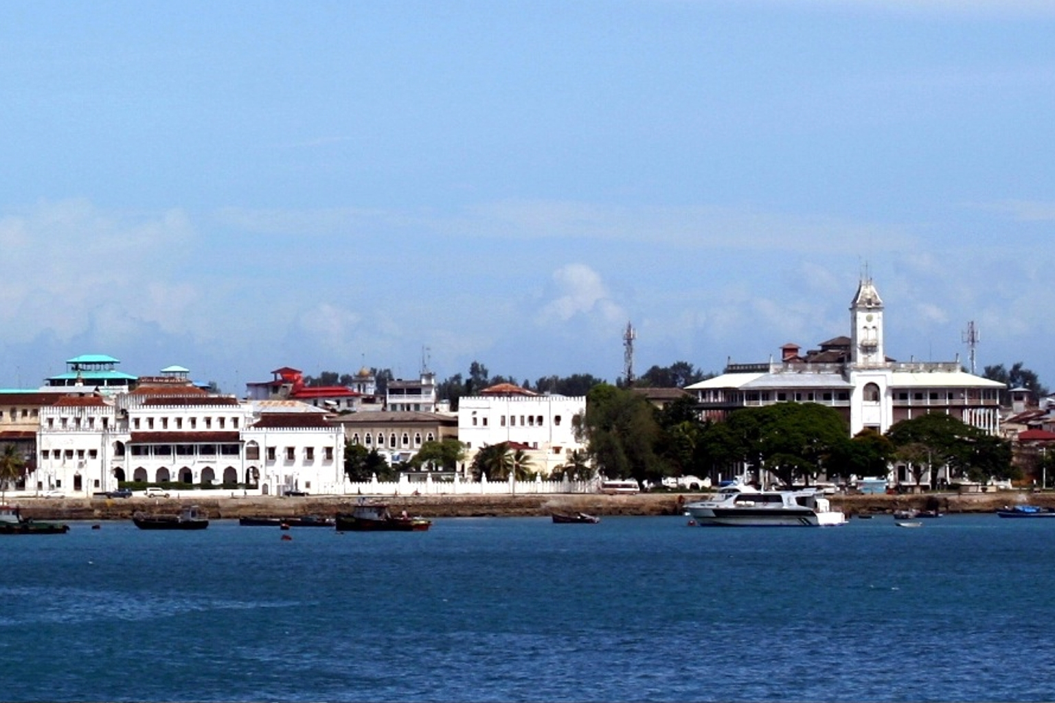 Zanzibar with the Sultan's Palace. Photograped by Brocken Inaglory